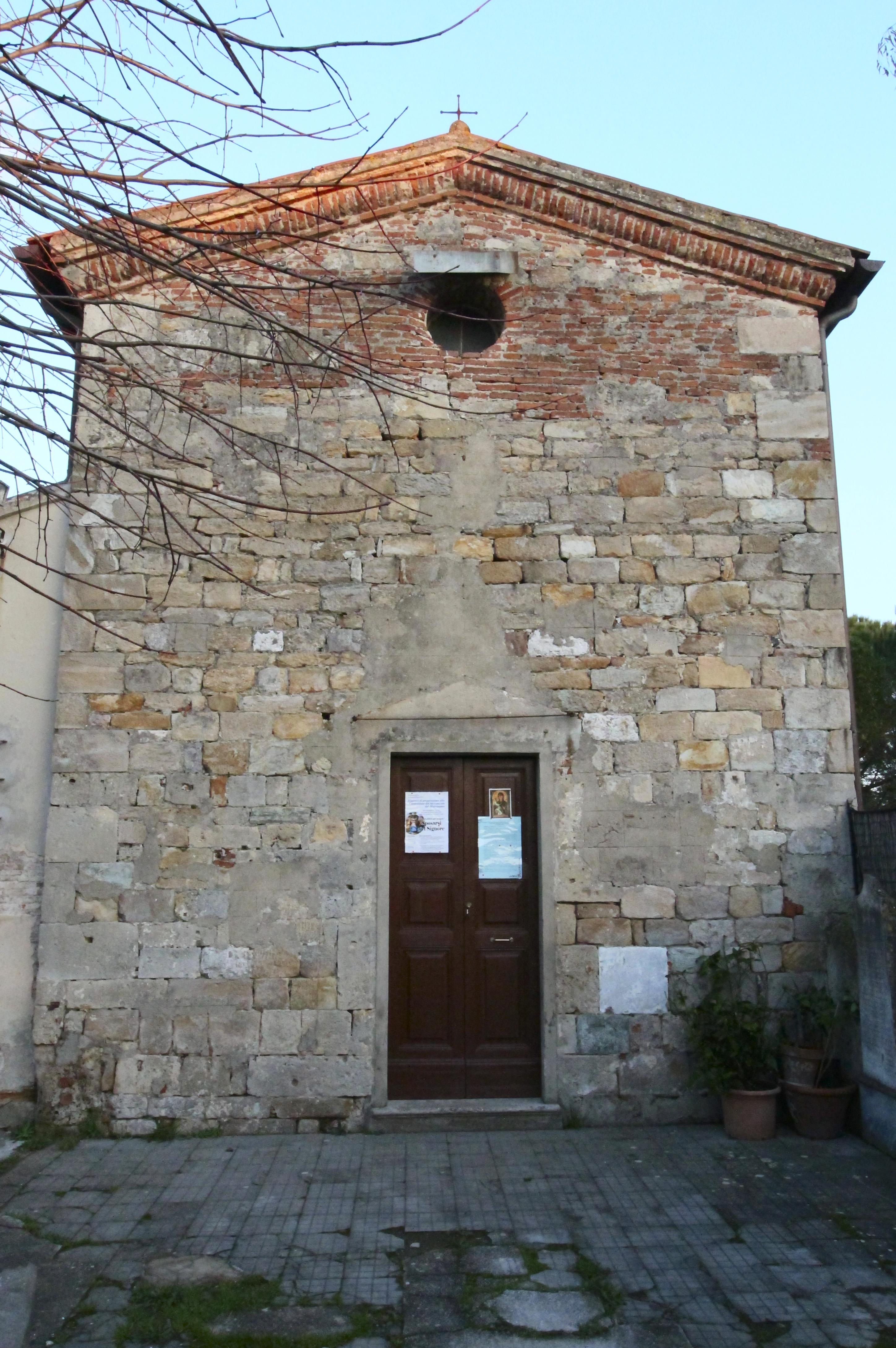 Church San Martino, Musigliano, hamlet of Cascina, Province of Pisa, Tuscany, Italy